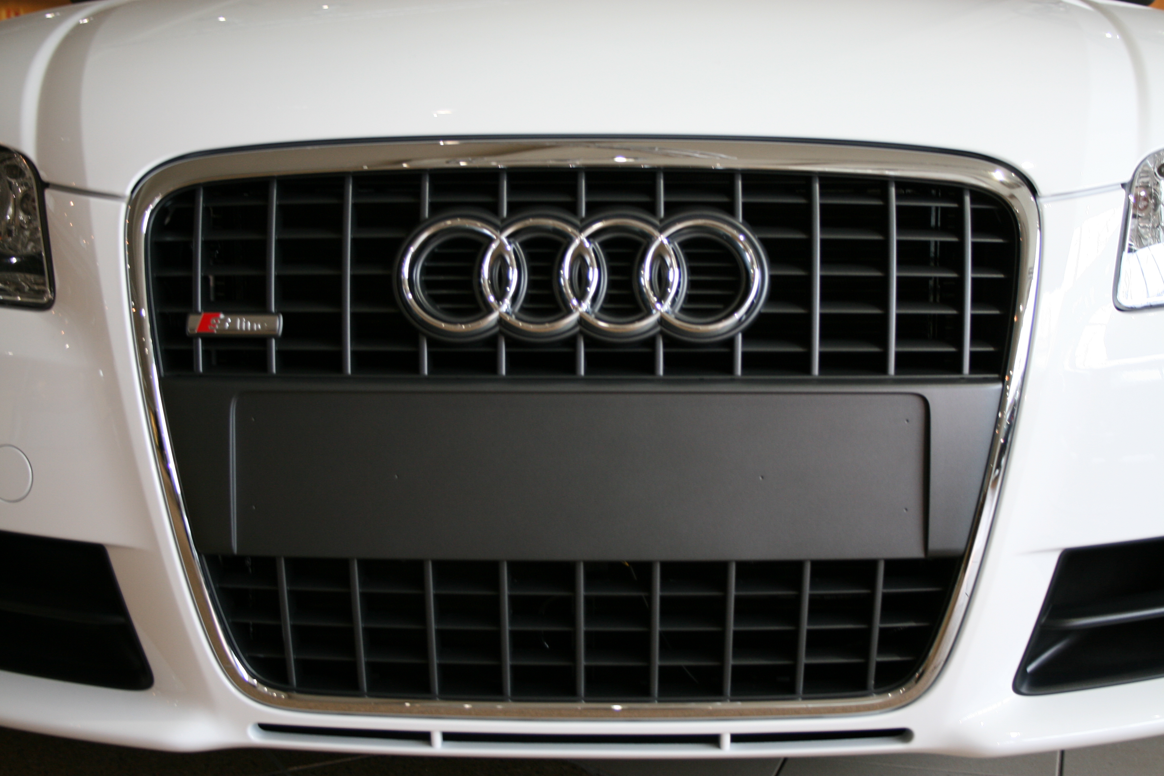 Picture of the Audi grill